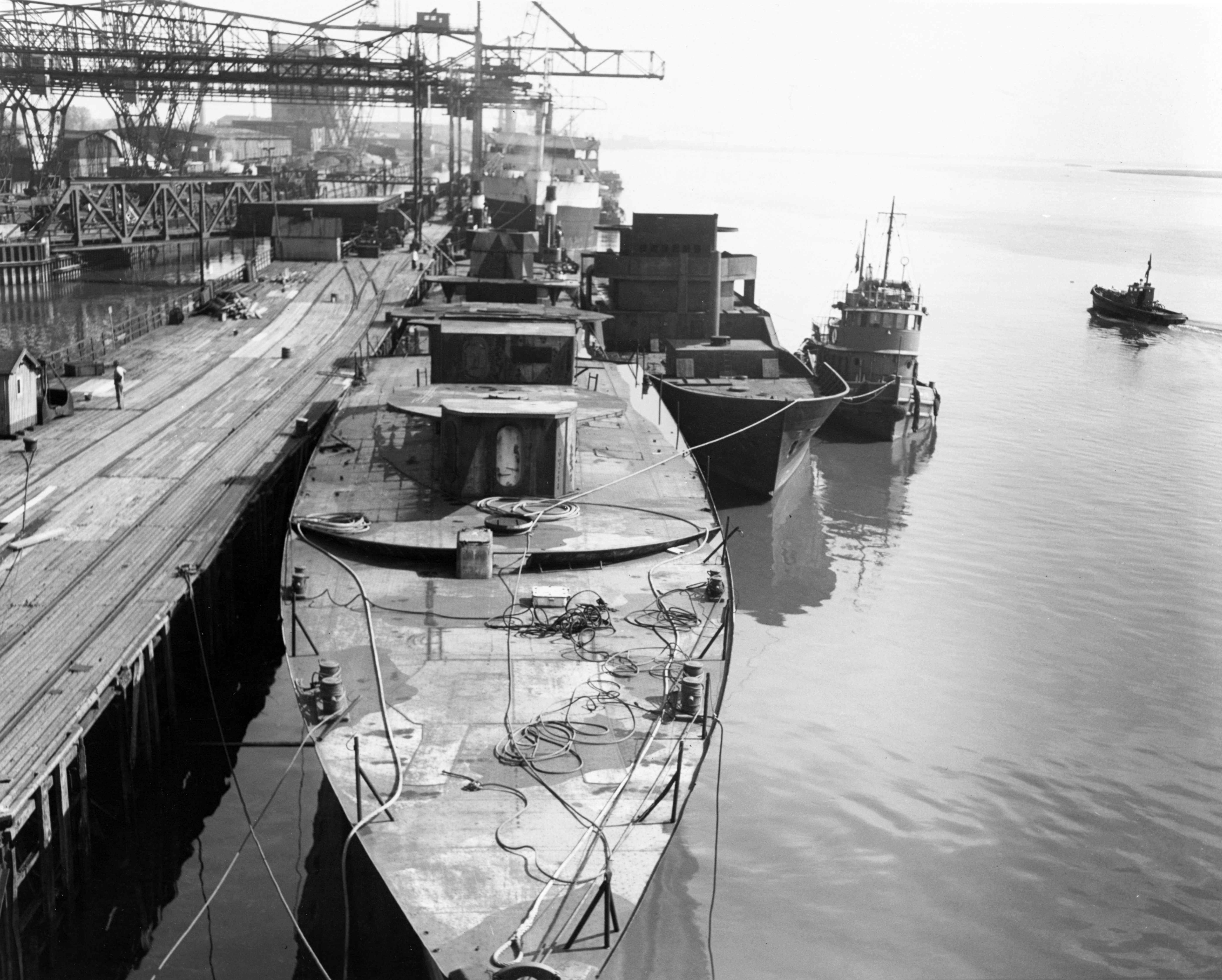 Ex-German ships at the Midgard docks of the Nordenham Sub Port of the 17th major port command, 2 July 1946. They were being loaded with poison gas and were to be scuttled in the North Sea to dispose of this material. Visible are the uncompleted Flottentorpedoboot 1940-class destroyer T 63, inboard, Kriegssperrbrecher 3 and a U.S. Army tug. T 63 was scuttled in the Skagerrak on 31 December 1946.